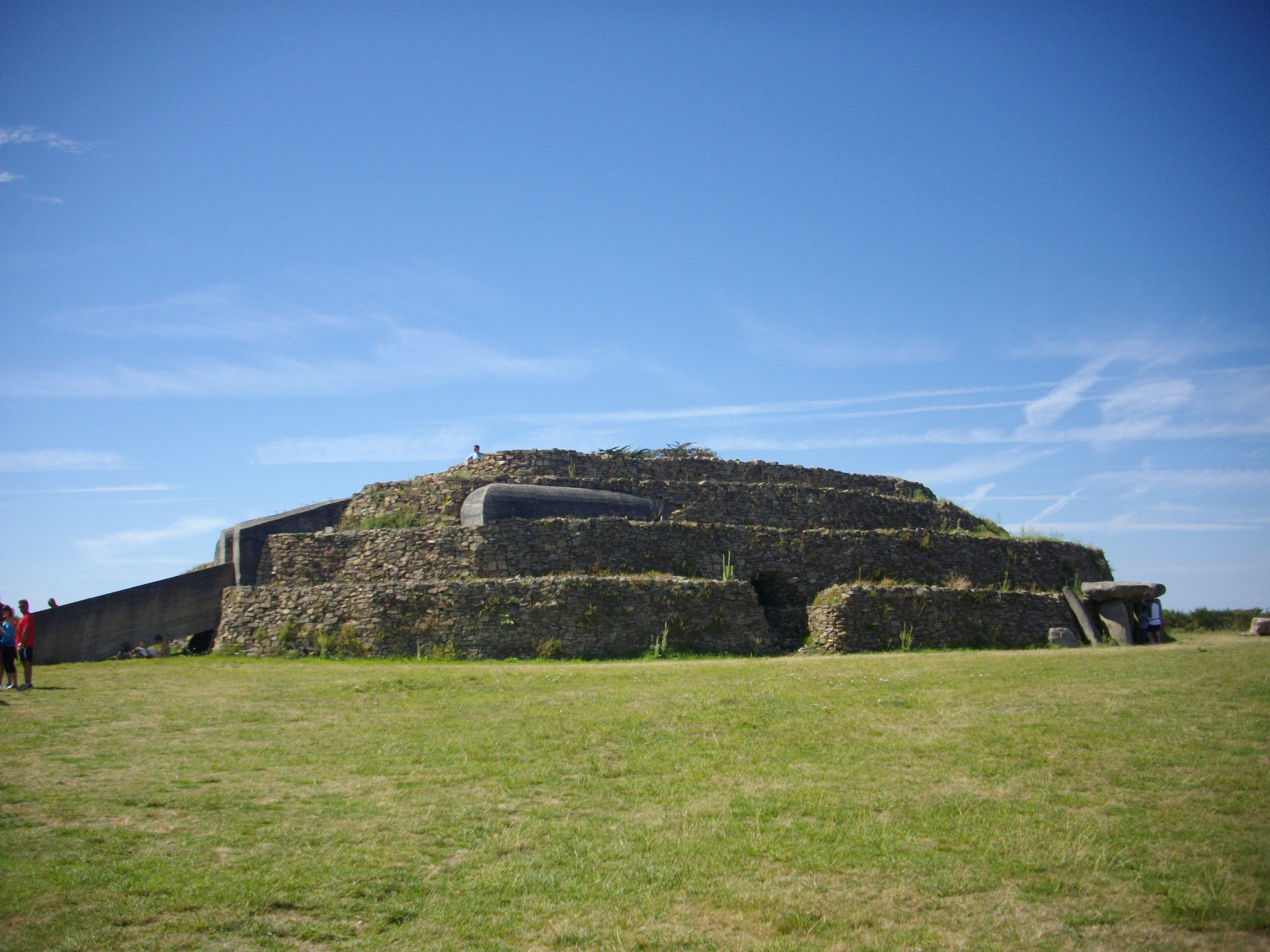 "Petit Mont" in Arzon (Morbihan, France) .